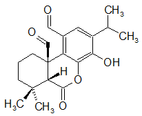 Safficinolide structure